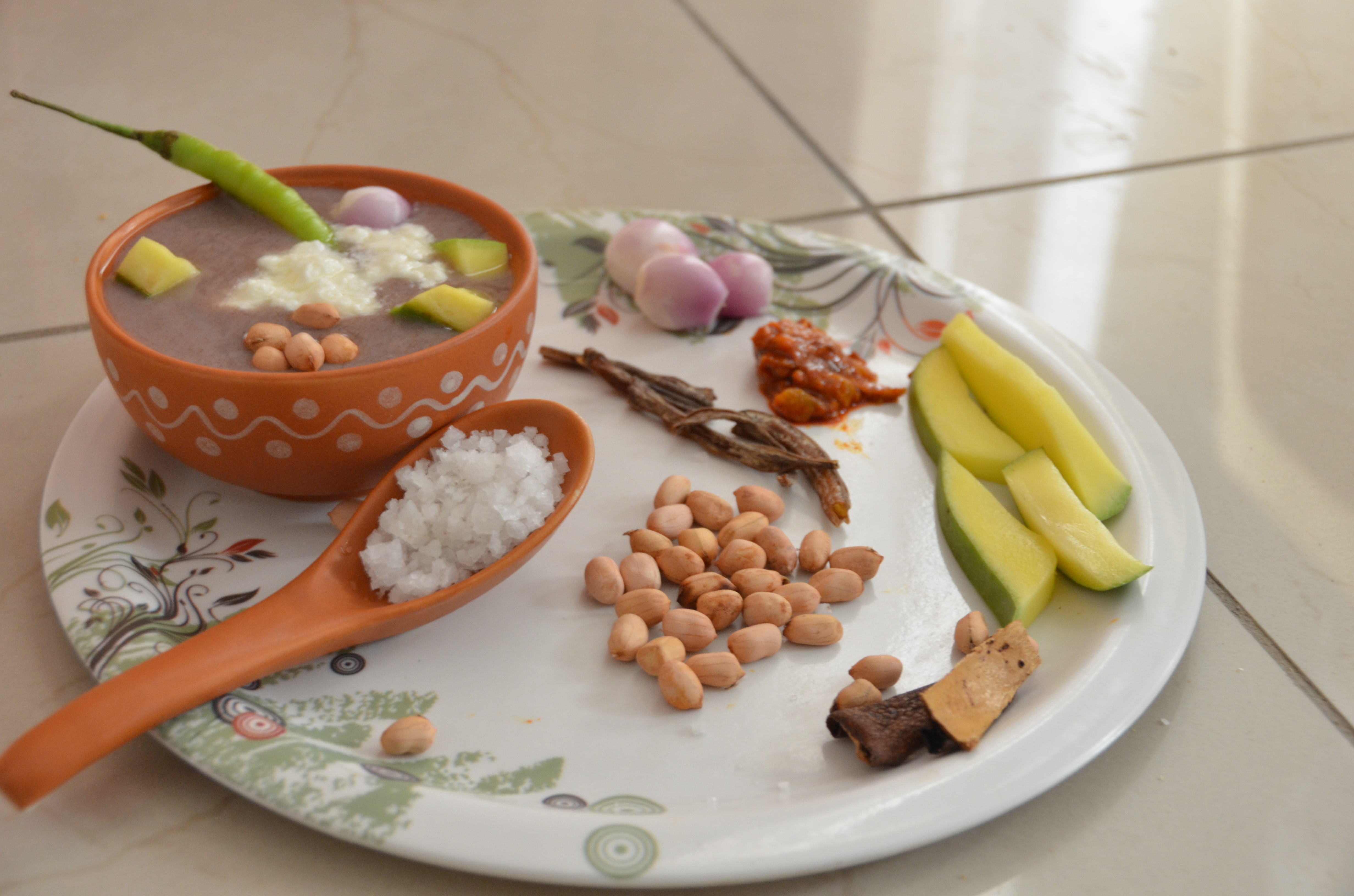 This is one of the traditional dish of tamil nadu. this "koozh" is topped with curd and.